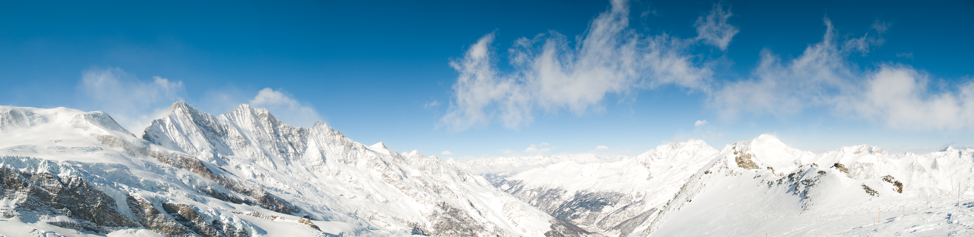 Saas-Fee and the Saastal seen from the revolving restaurant att the Allalin